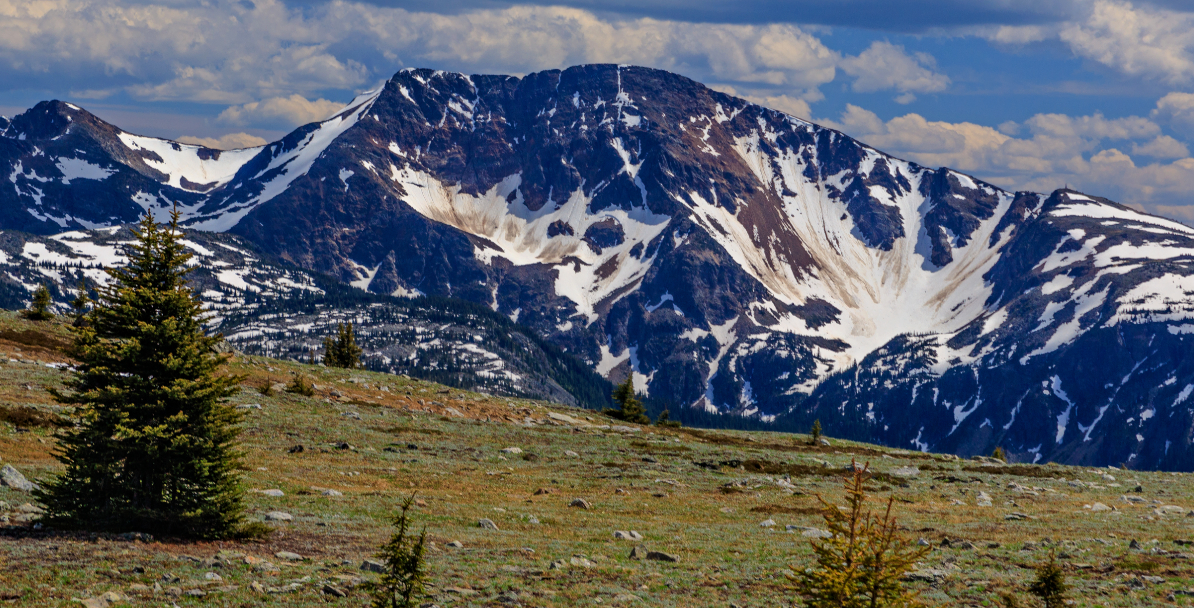 early season visit to the Trophy Meadows...Raft Mountain (2450 m)...